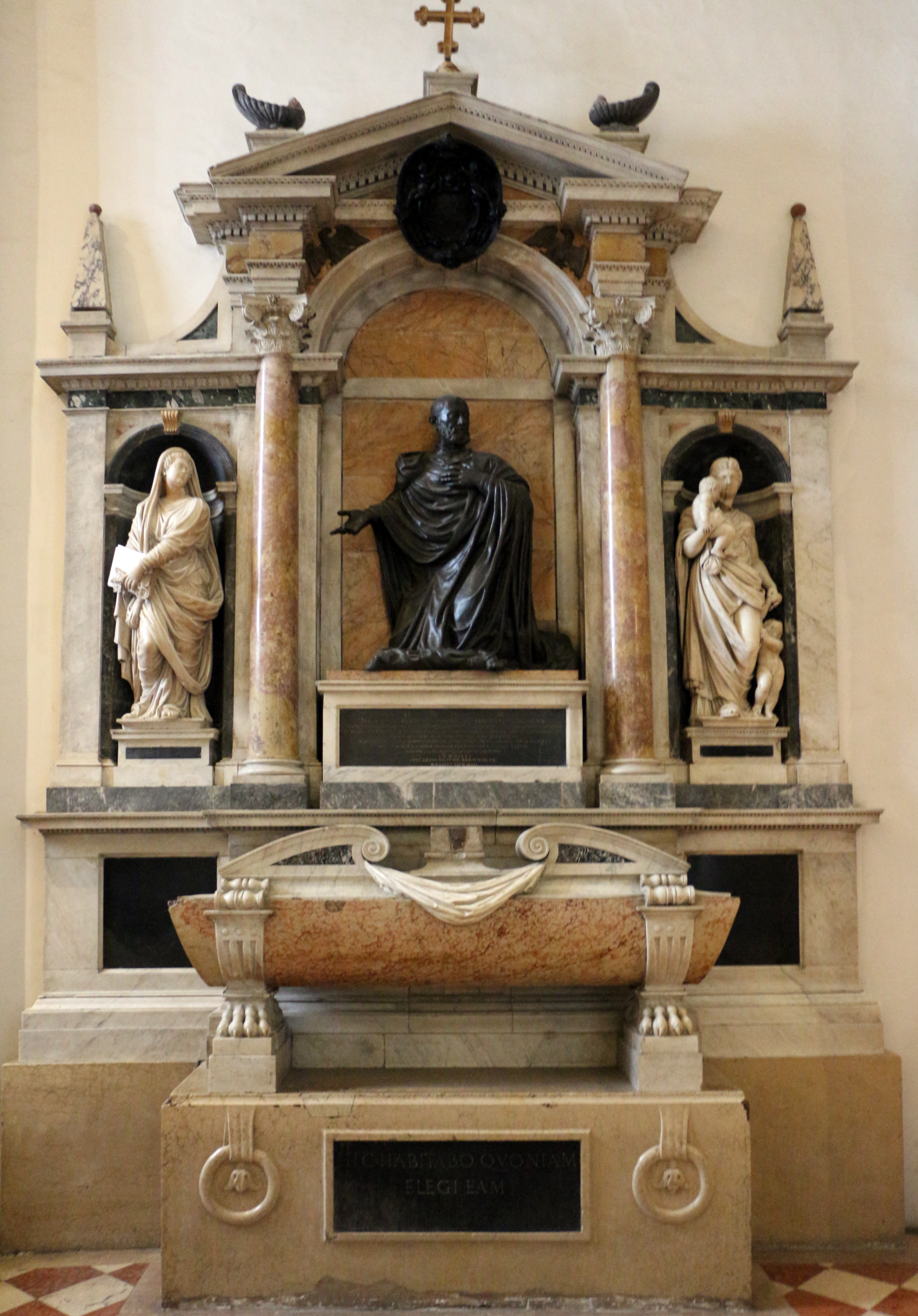 Santuario della Santa Casa (Loreto) - Interior